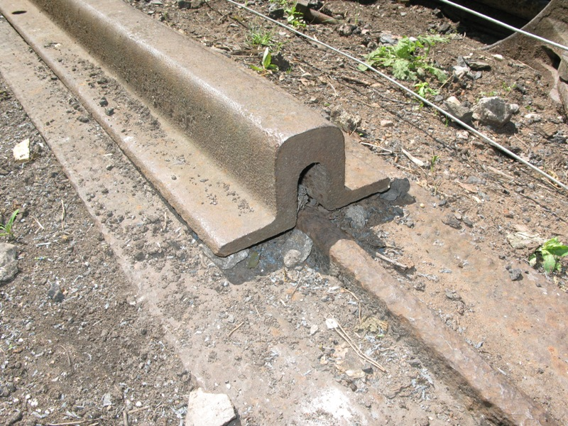 An example of MacDonnell plate track at the Didcot Railway Centre, England. This track, used in some parts of the south west of England in the nineteenth century, used a light bridge rail laid on metal plates – there was no timber used for sleepers or ties.